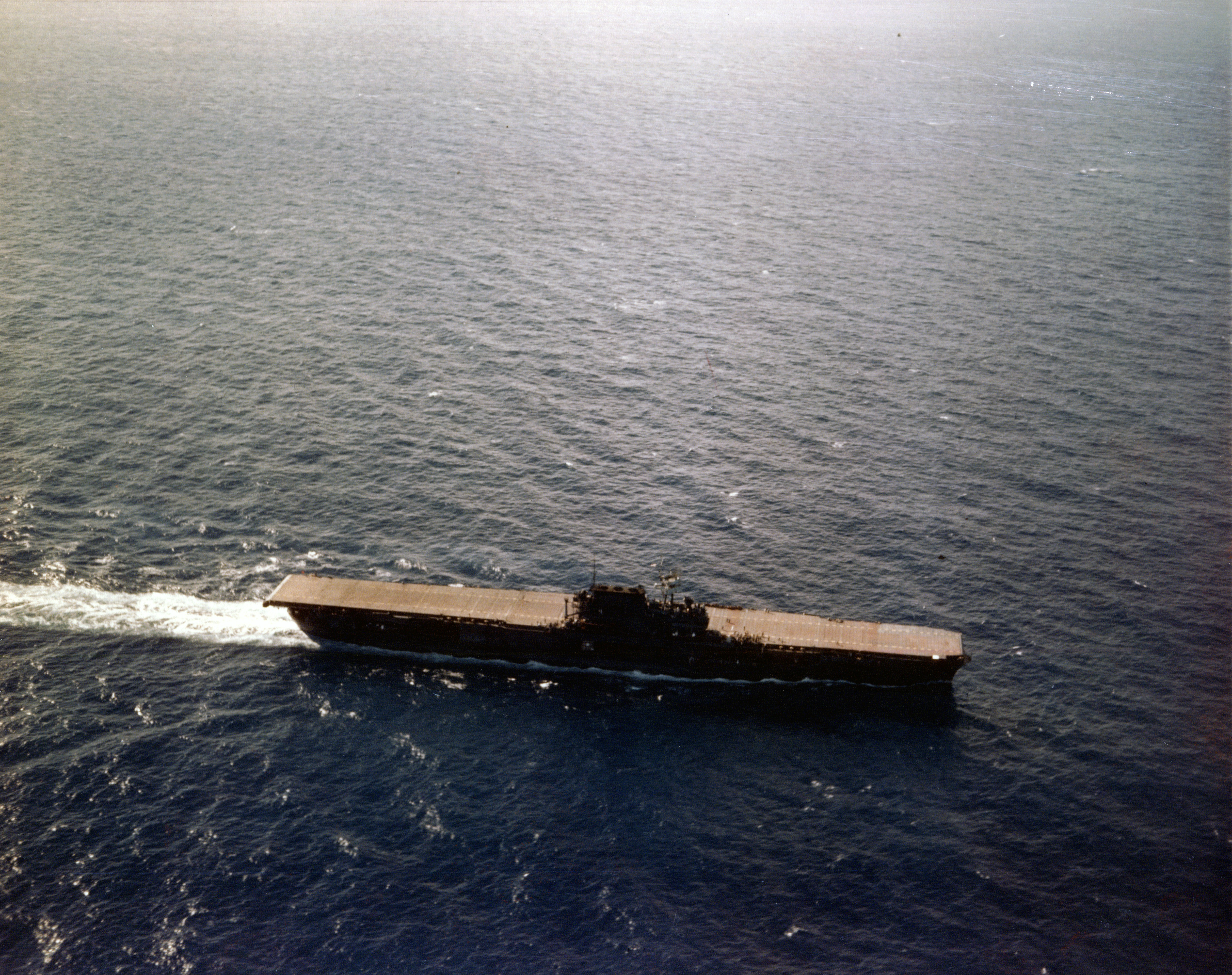 The U.S. Navy aircraft carrier USS Enterprise (CV-6) operating in the Pacific, circa late June 1941. She is turning into the wind to recover aircraft. Note her "natural wood" flight deck stain and dark Measure 1 camouflage paint scheme. The flight deck was stained blue in July 1941, during camouflage experiments that gave her a unique deck stripe pattern.